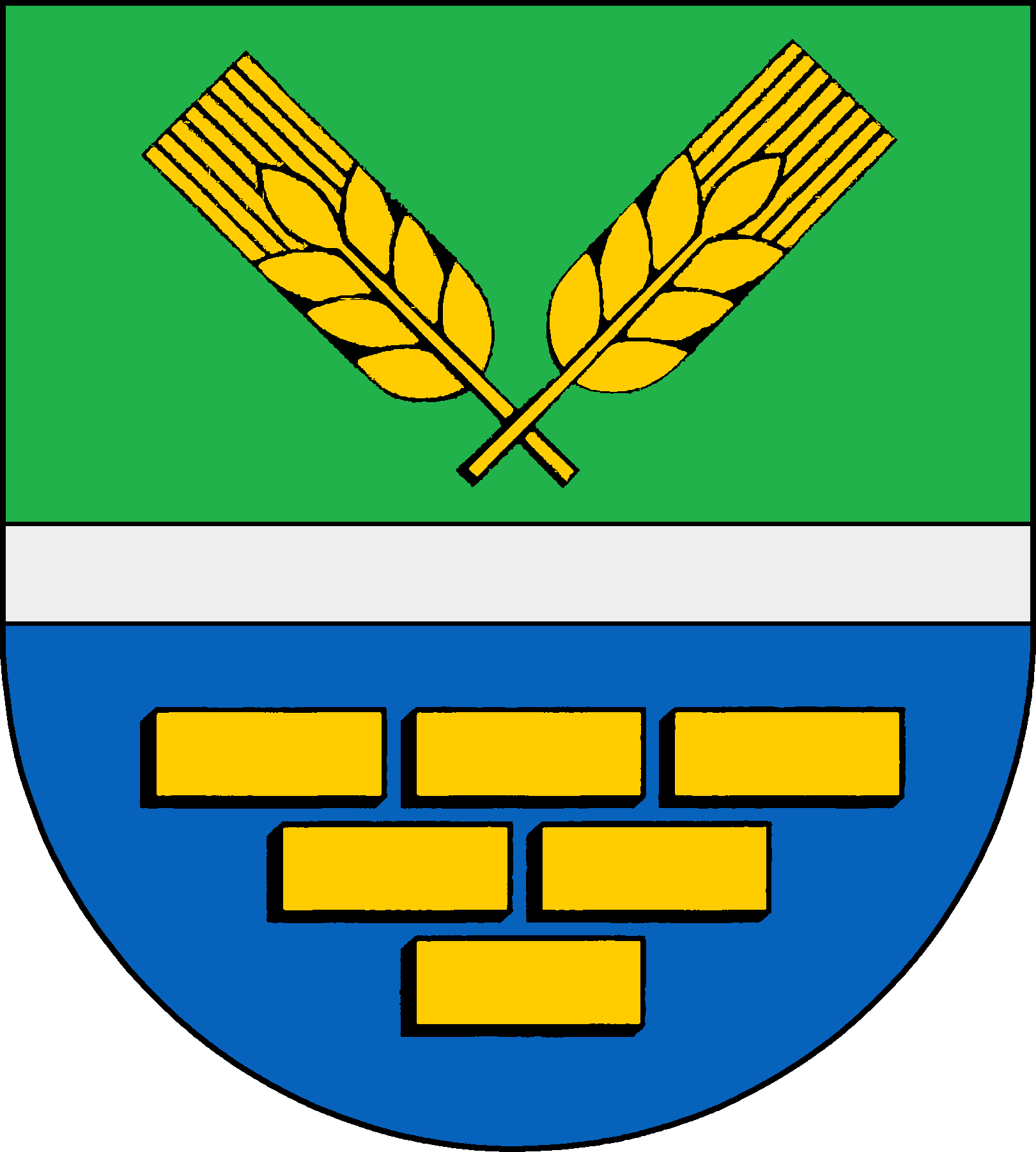 Coat of arms of the municipality Rade b. Rendsburg in Schleswig-Holstein, Germany.